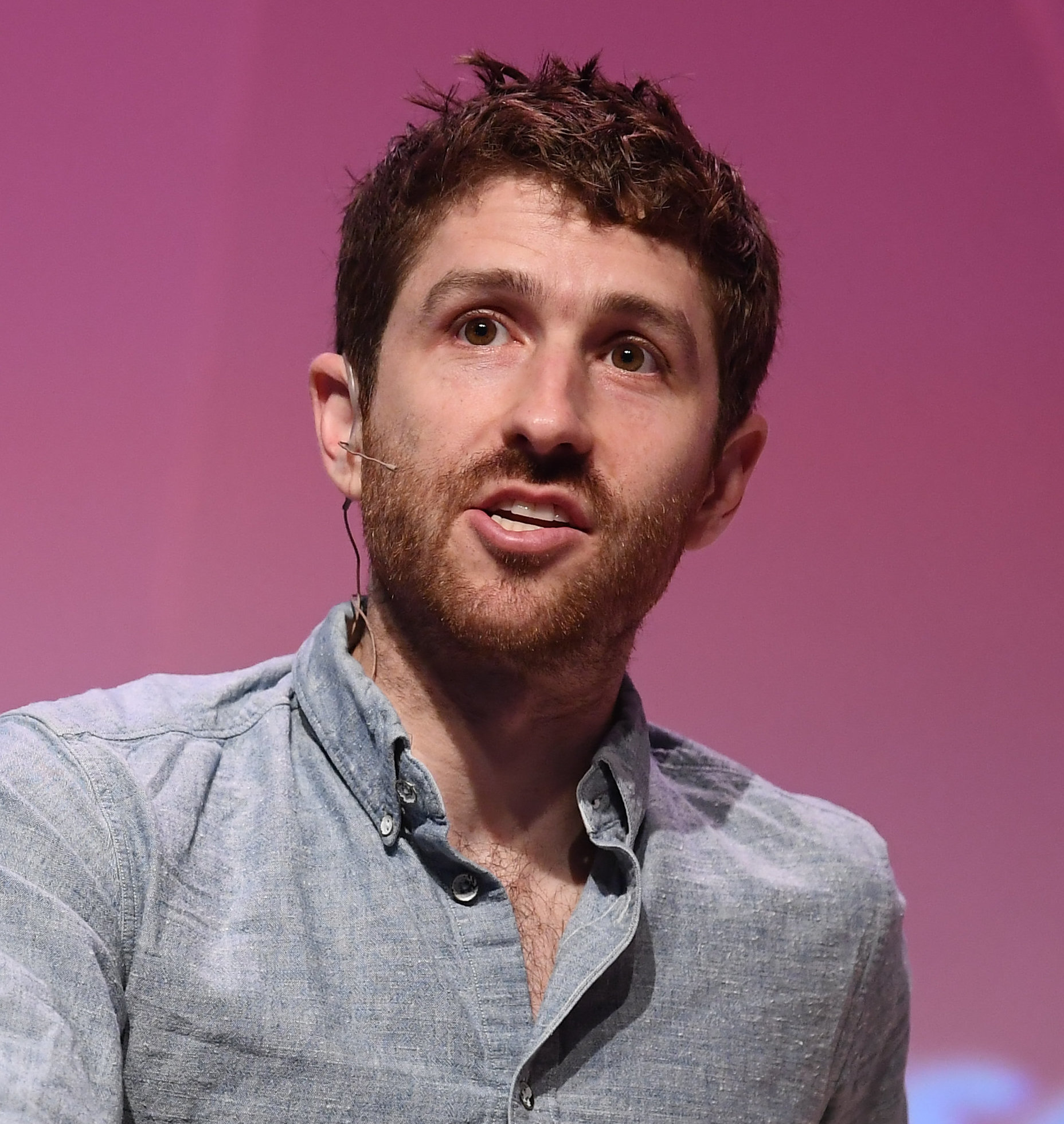 Tristan Harris on the center stage during day two of Collision Conf 2018 at Ernest N. Morial Convention Center in New Orleans. Photo by Stephen McCarthy/Collision via Sportsfile.